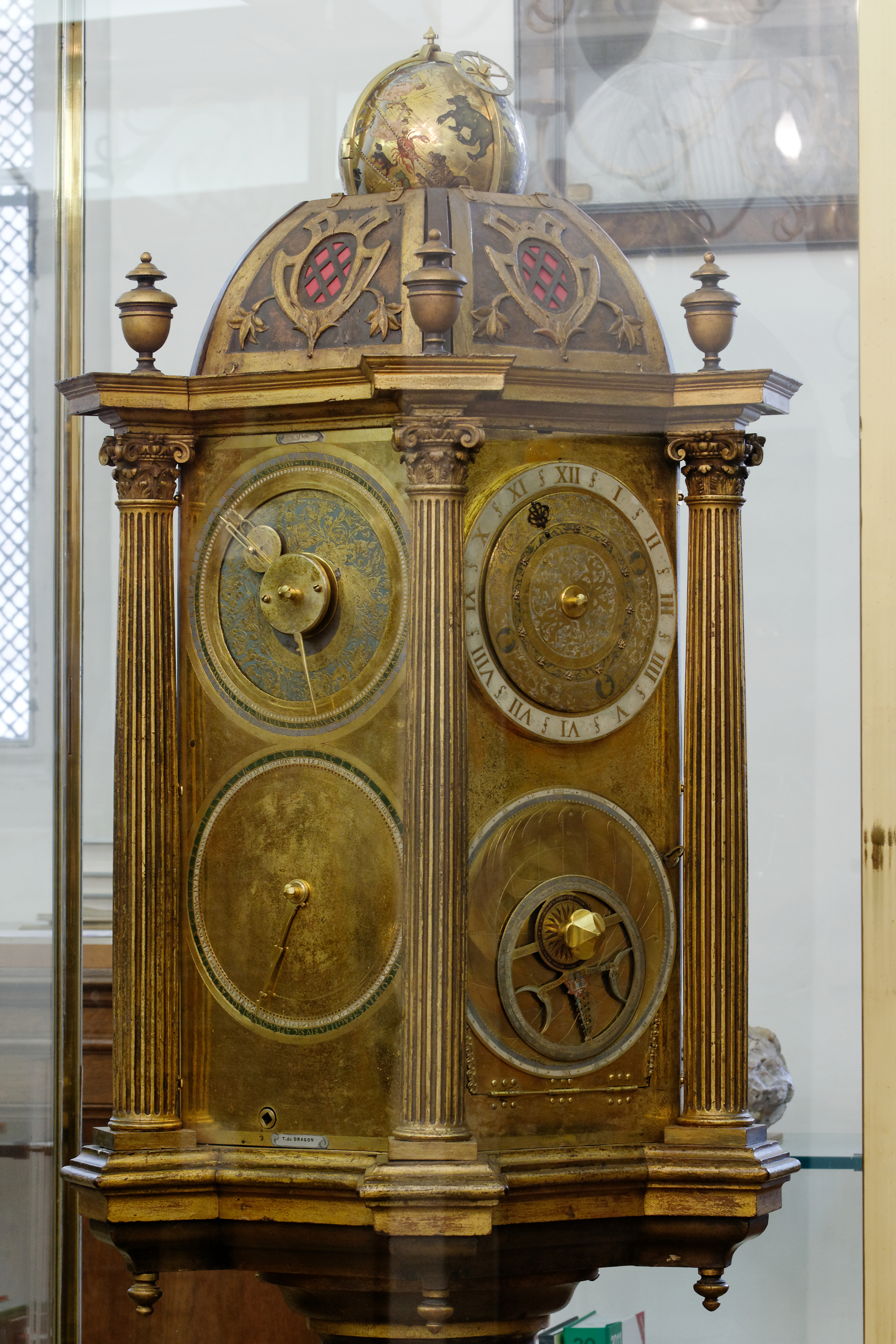 Astronomical clock built for Cardinal Charles of Lorraine, archbishop or Reims.